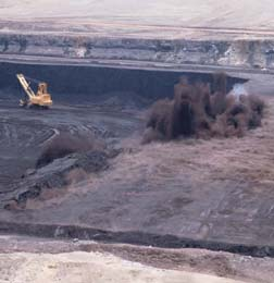 To facilitated mining of a coal seam in Gillette, Wyoming, blasting was used to loosen the coal after the overburden was removed. Approximately half a million tons of coal in a seam 80 feet thick was loosened by this single blast.